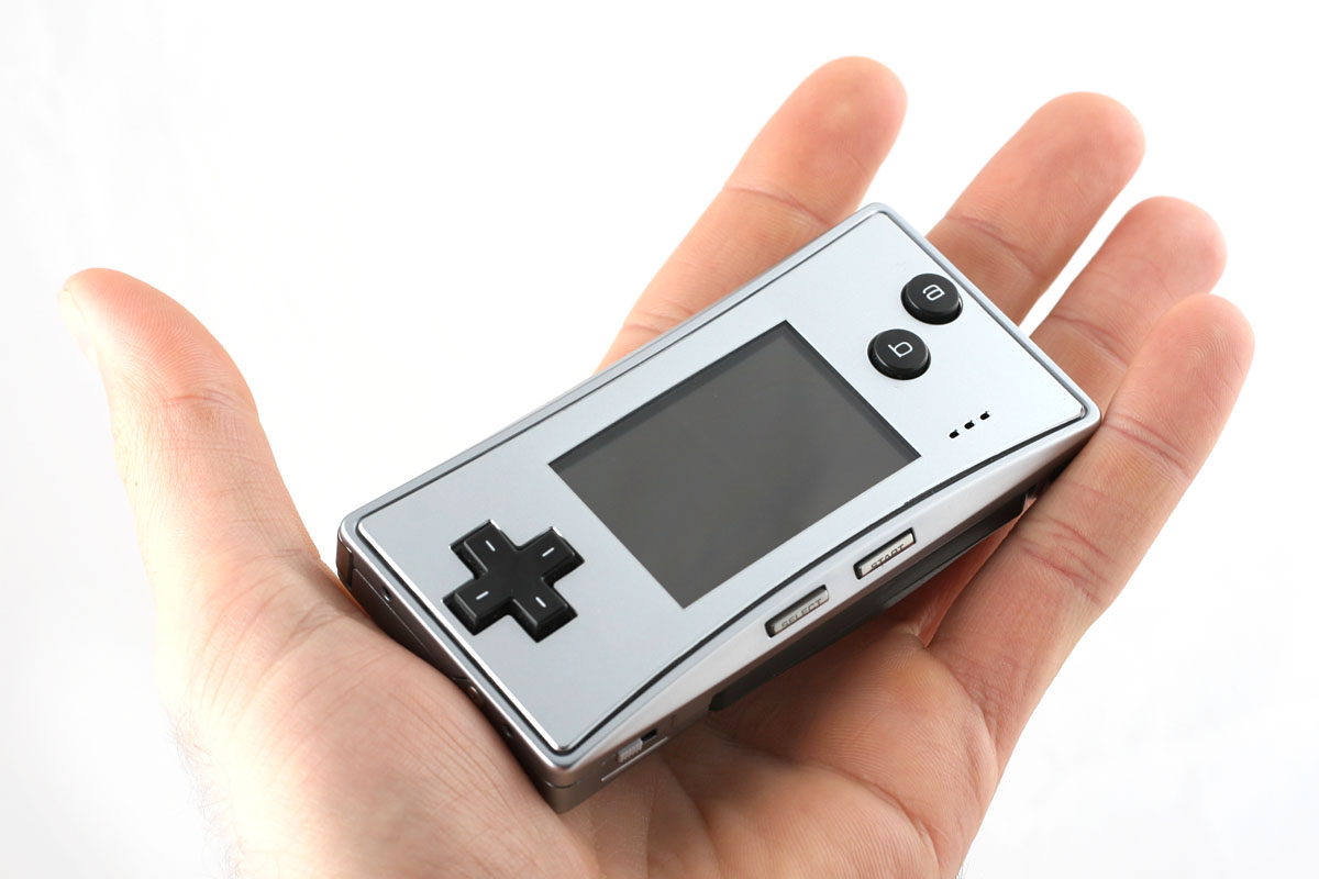 Nintendo Game Boy Micro